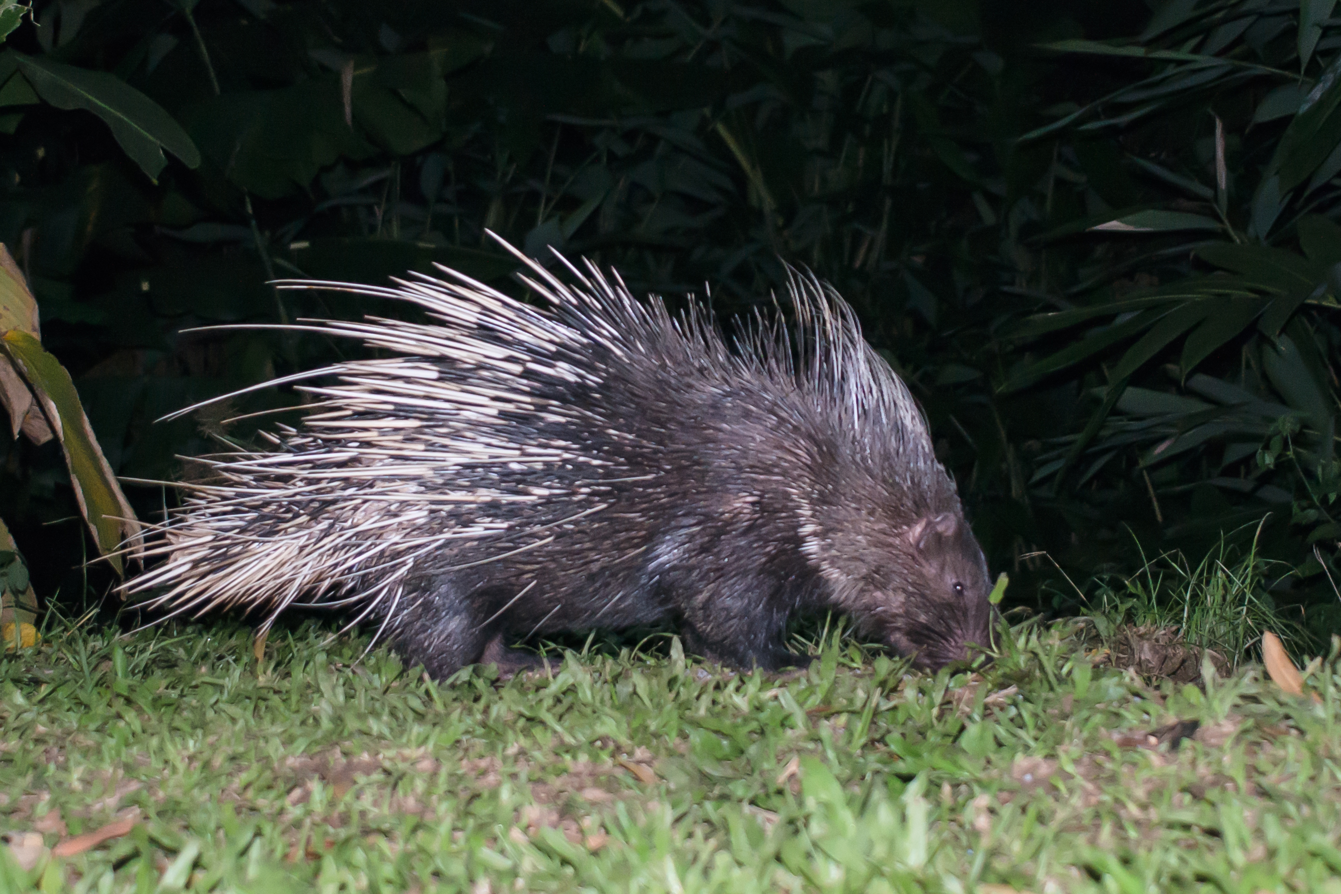 Hystrix brachyura, Malayan porcupine - Kaeng Krachan National Park, Thailand. Photo by Thai National Parks